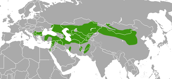 Marbled Polecat (Vormela peregusna) range